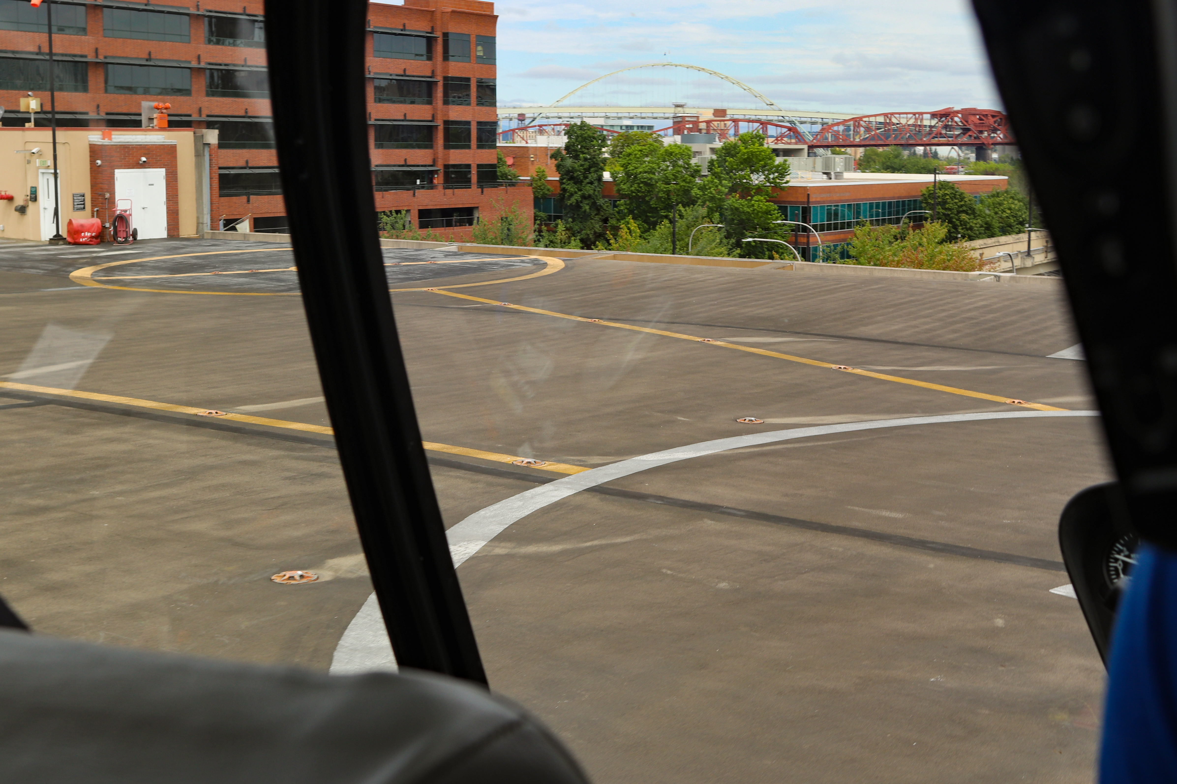 Portland Downtown Heliport from helicopter in 2020. Burnside and Fremont bridges visible in background.